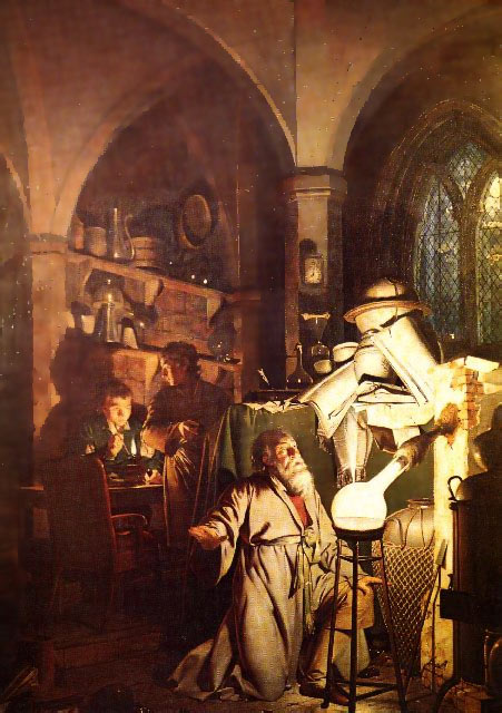 Full title: The Alchymist, In Search of the Philosopher’s Stone, Discovers Phosphorus, and prays for the successful Conclusion of his operation, as was the custom of the Ancient Chymical Astrologers